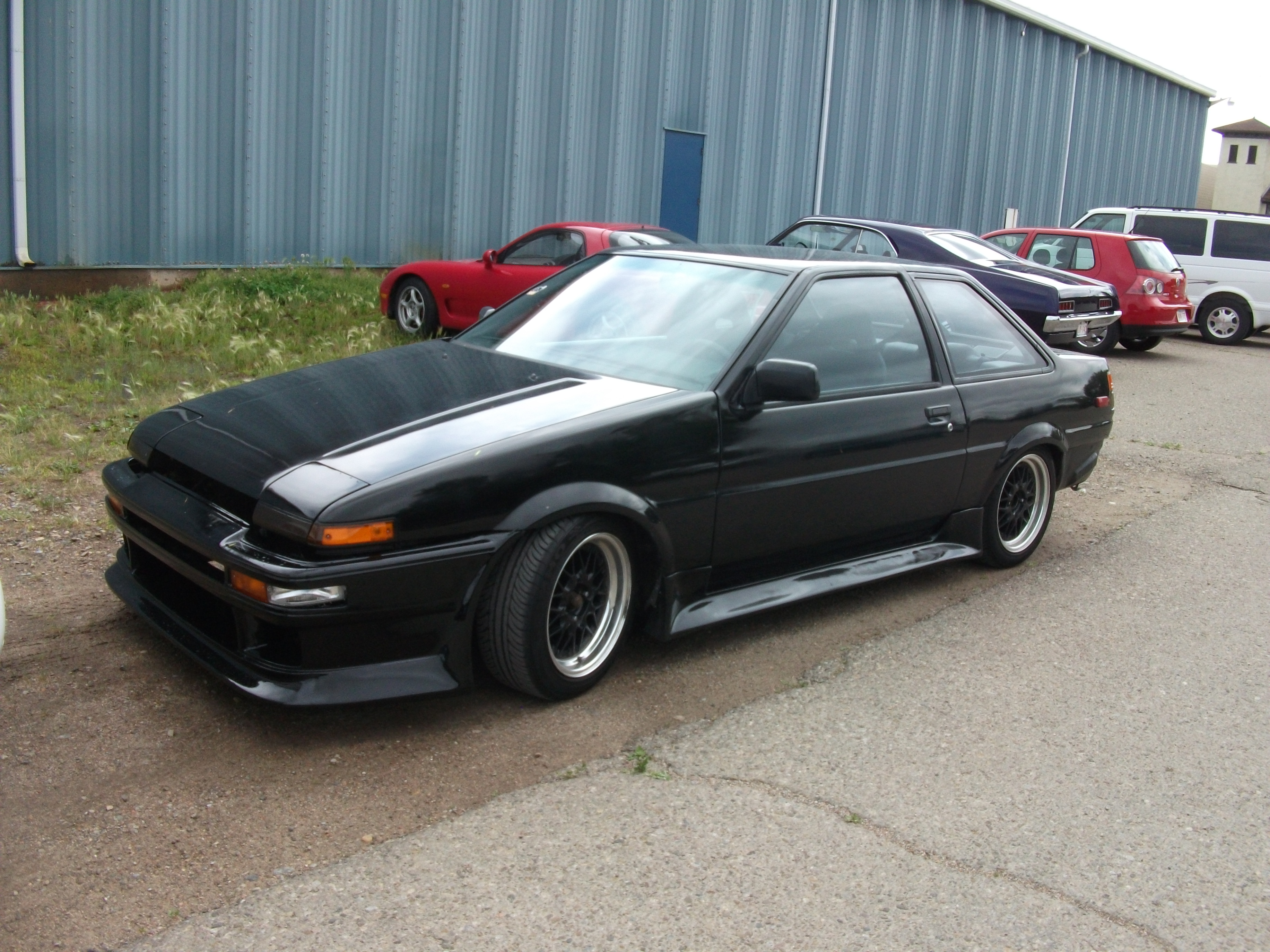 Toyota Corolla GTS in the parking lot at the auto-x